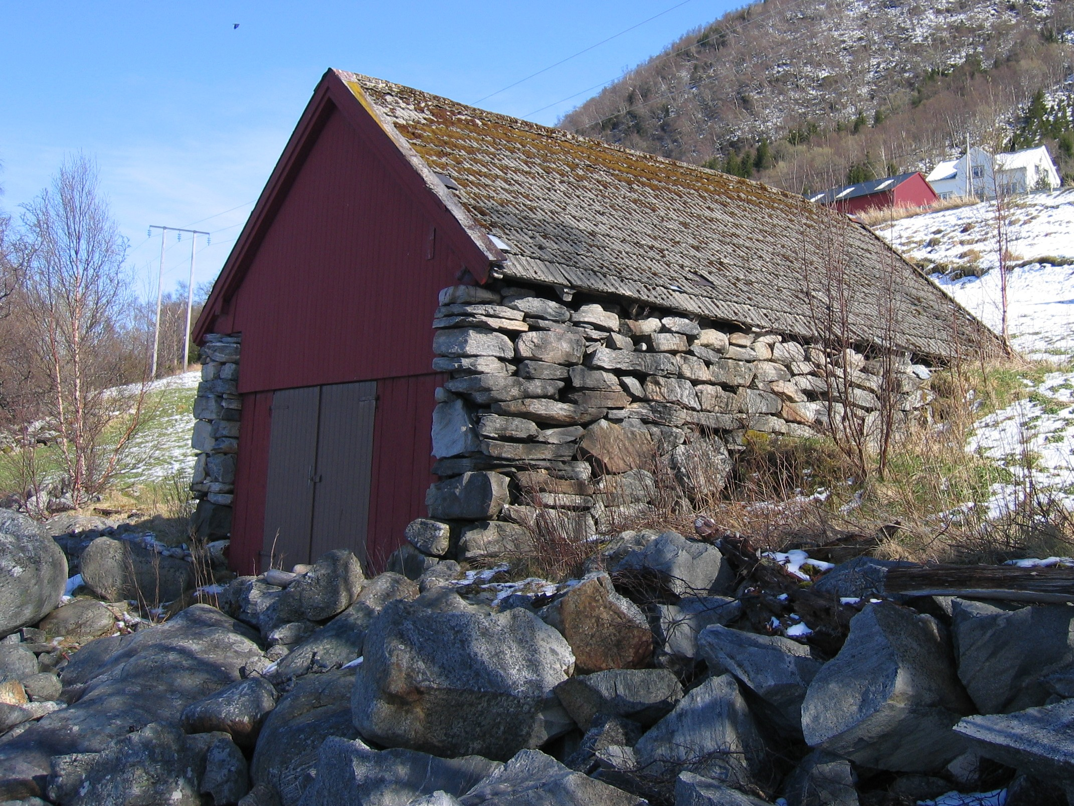 A norwegian boathouse made of stone